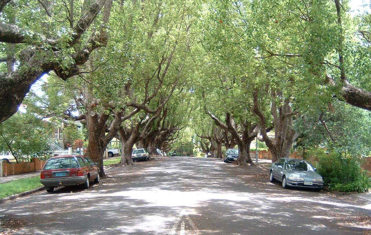 Abbott Street in New Farm, Queensland. Photo taken by User:Adz on 8 November 2005.